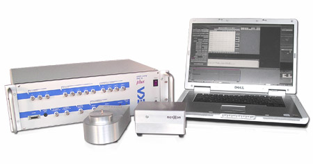 Port-a-Patch